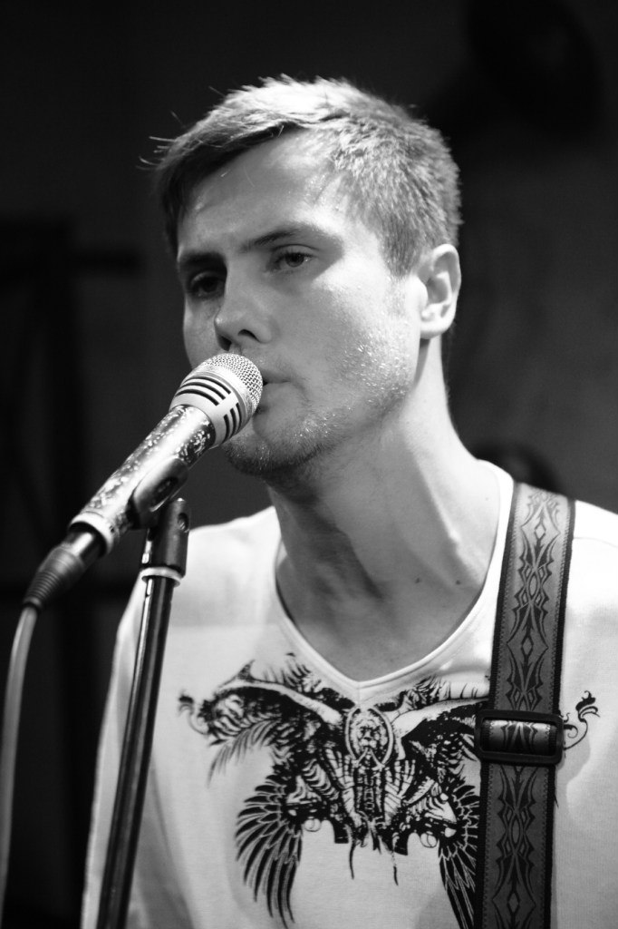 Jenia Scroodge